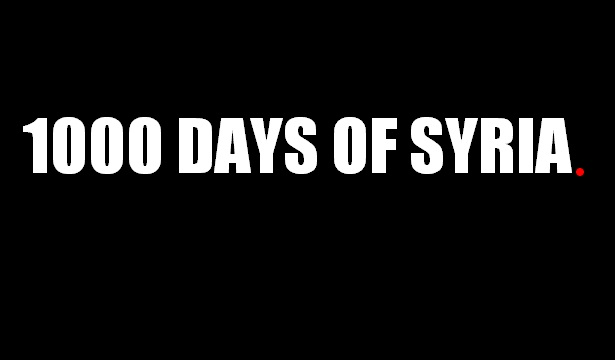 The logo for the video game 1000 Days of Syria. Logo consists of text and a horizontal rule.